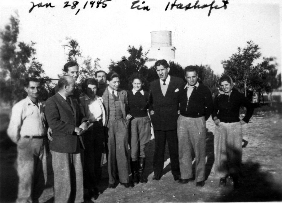 People of Israel